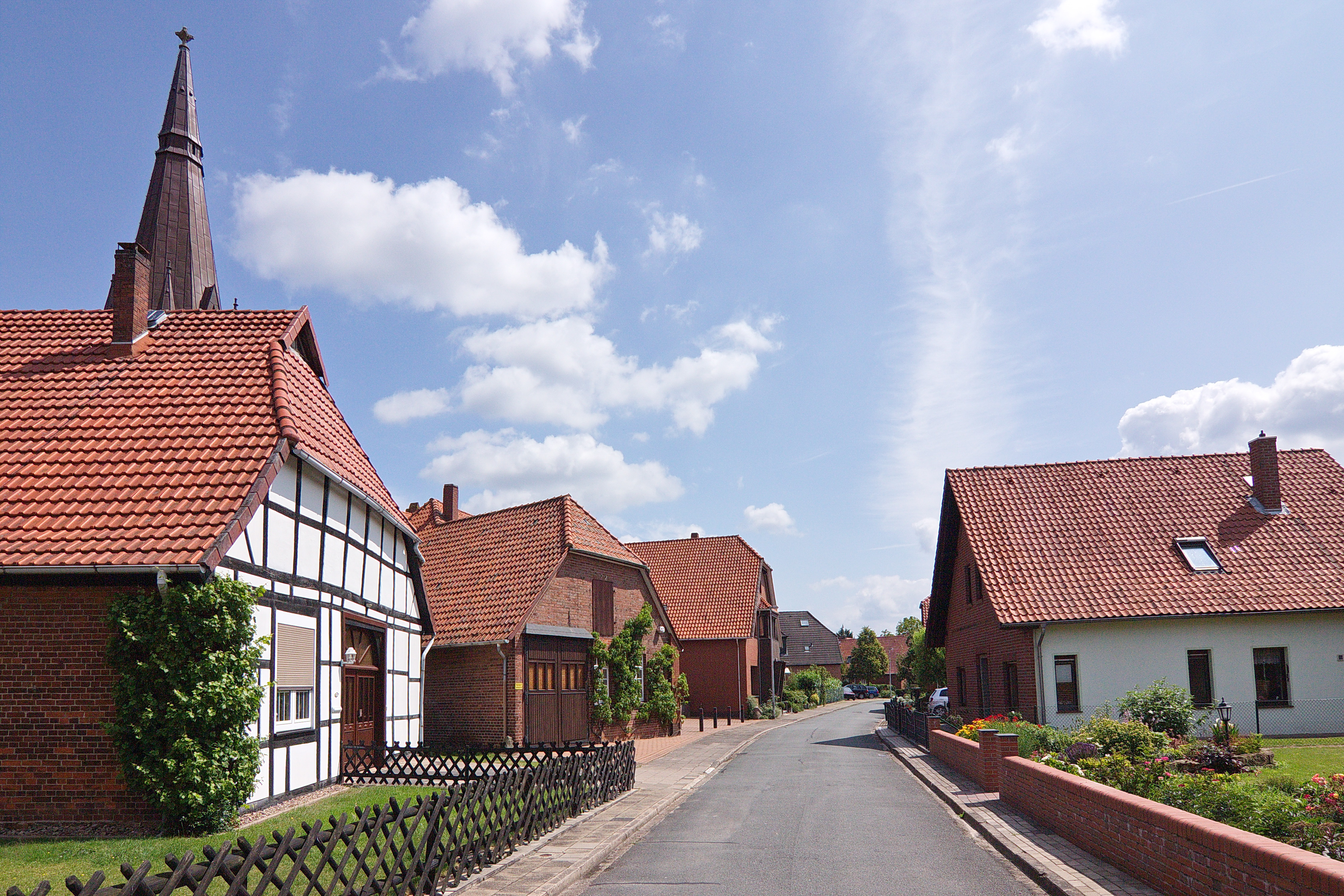 Ortsblick in Leese, Niedersachsen, Deutschland